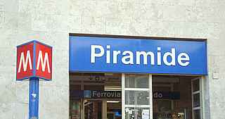 Entrance to subway in Rome Italy. Part of my studies of Roman Life and Italian culture customs and traditions. Piramide, Rome. This account user. 10 October 2008.